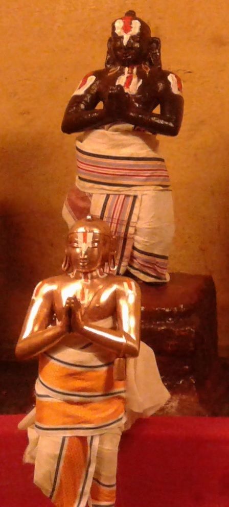 Thondaradipodi Azhwar